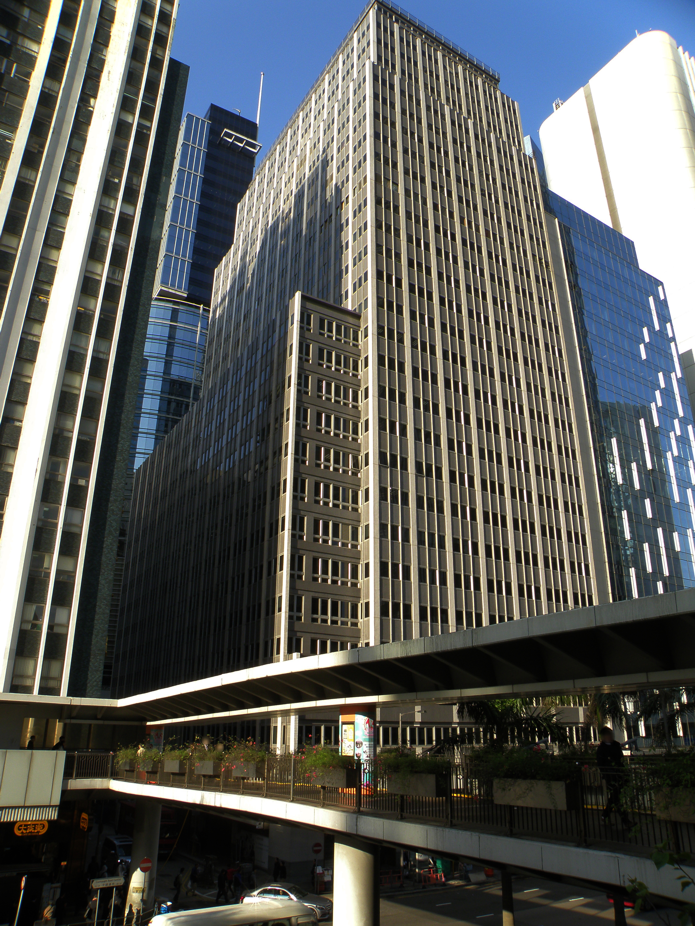 Wing On House in Central, Hong Kong.